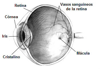 Human eye cross-sectional view grayscale Copyright: public domain, credit to NIH National Eye Institute requested. Original source: [1] ---- An XCF version of this image with the names on a separate layer, suitable for i18n, is at Delwedd:Llygad.xcf.